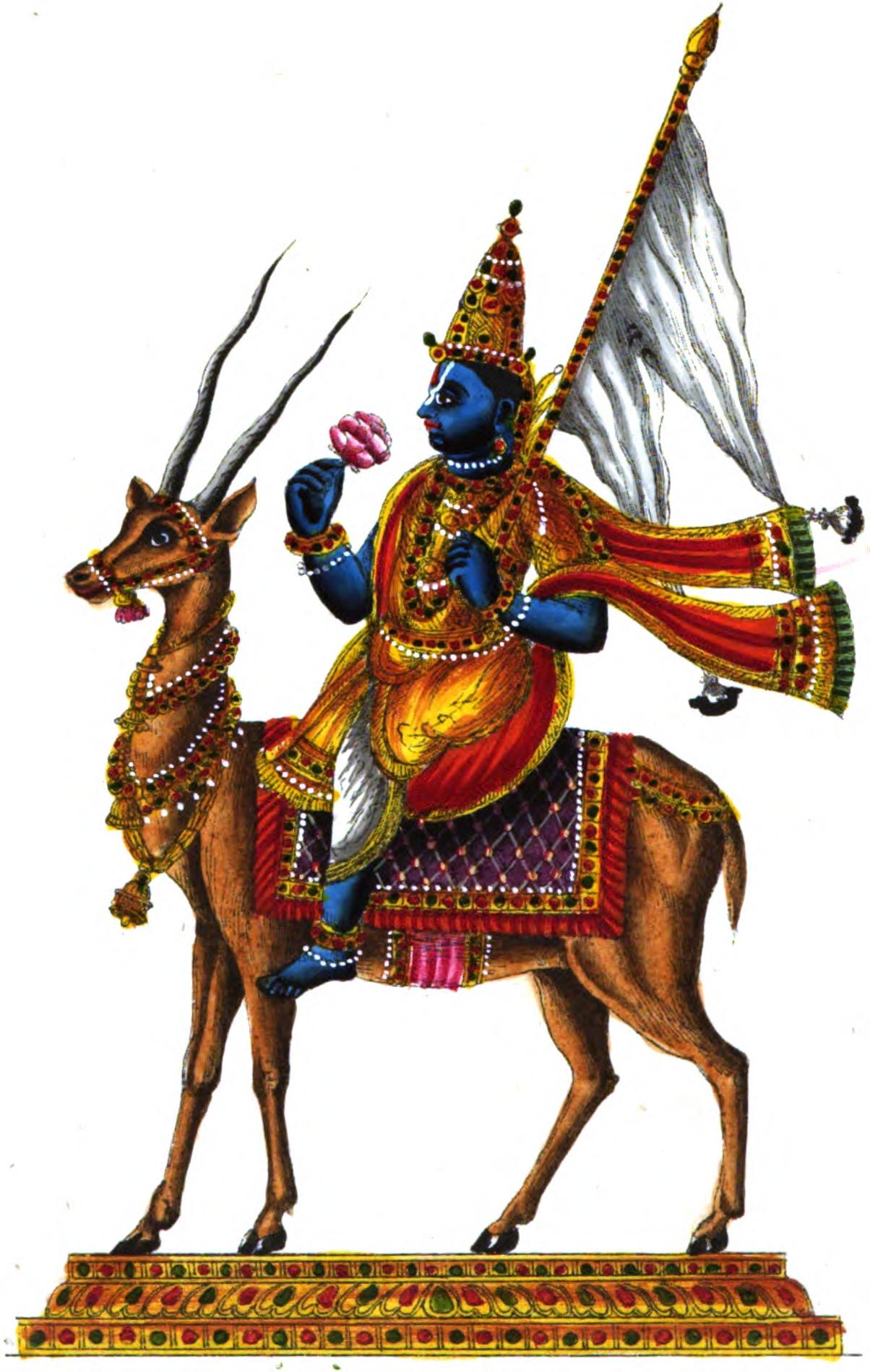 vayu